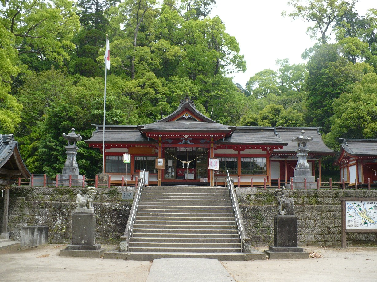 Kamo hachiman shrine main building, Aira city Kagoshima prefecture, Japan